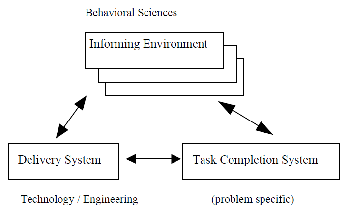 The original informing science framework from Cohen (1999) modified by Grandon Gill.